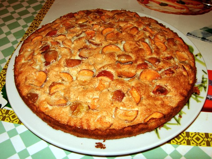 Charlotte (dessert)